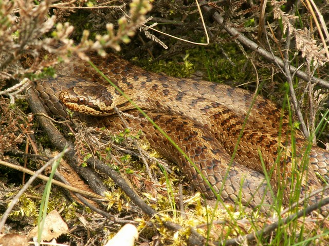 Smooth snake (Coronella austriaca) from the Veluwe, the Netherlands